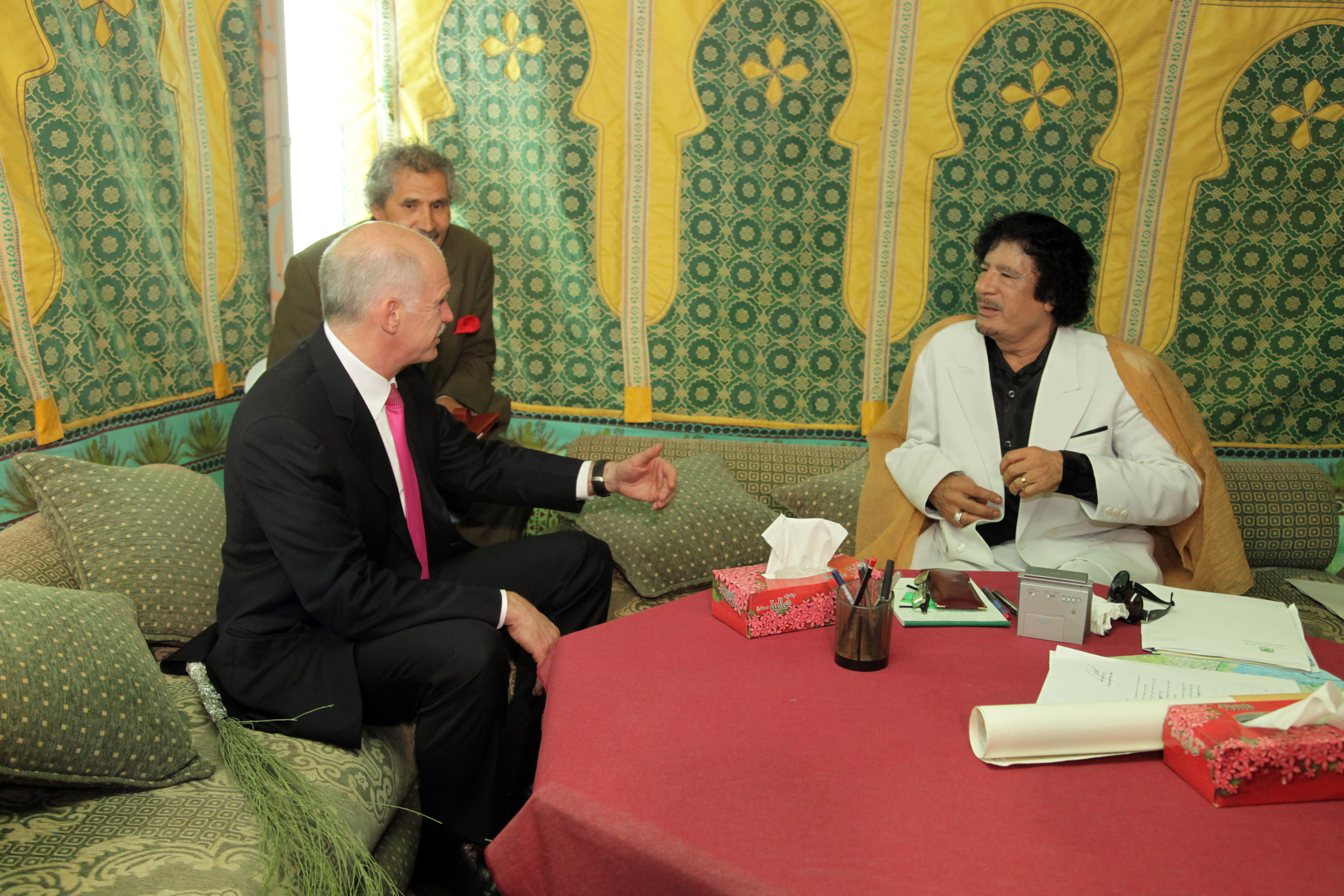 George Papandreou and Muammar Gaddafi, now it's only history.